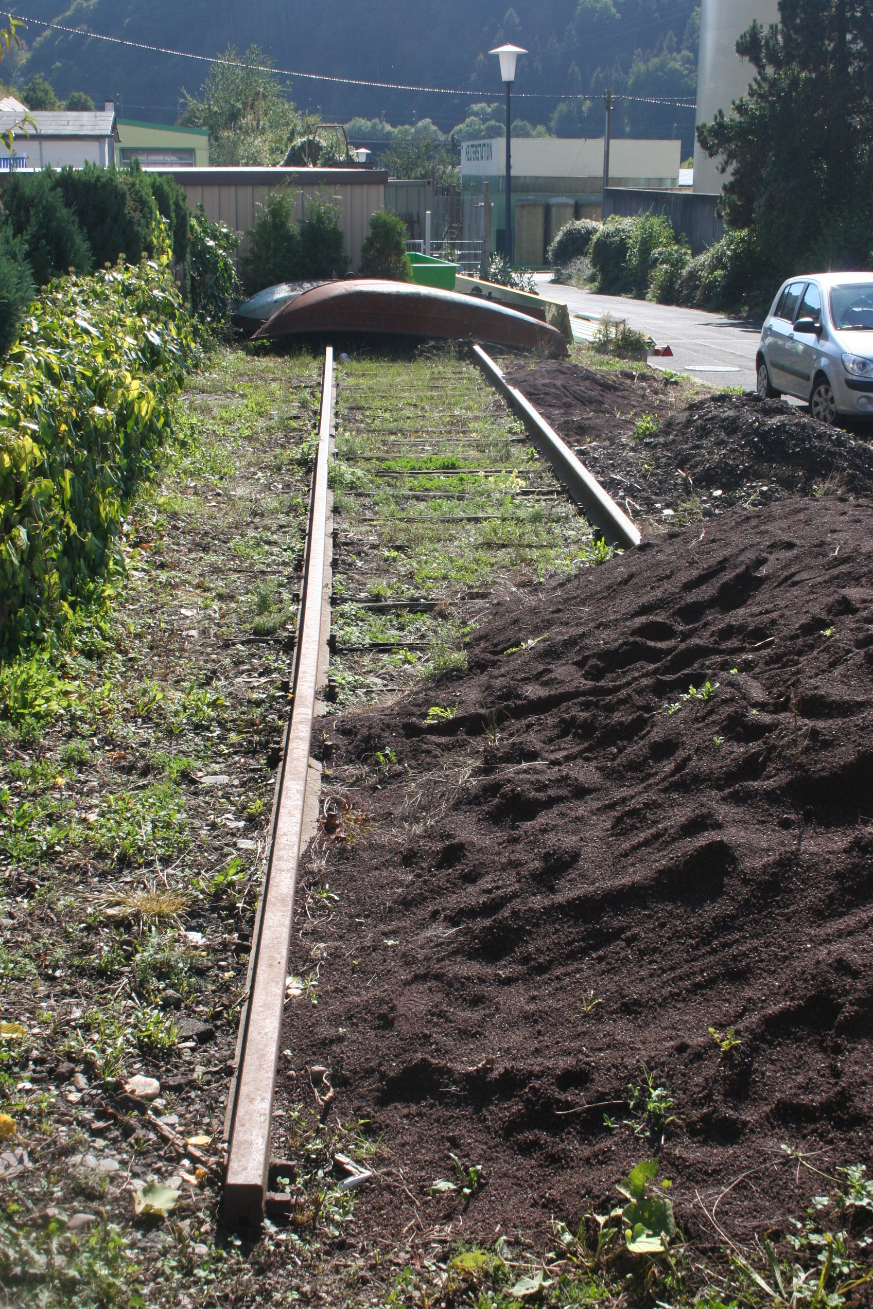 The last remnant of the Moselbahn railway, located in the village of Bullay